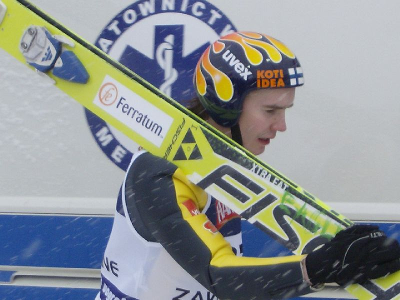 ski jumper Harri Olli from Finland during the World Cup in Zakopane on 27-1-2008